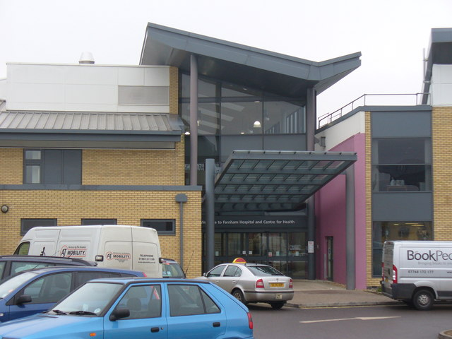 Farnham Hospital Modern "Hospital and centre for Health" on Hale Road. It has ample and free parking on its doorstep.